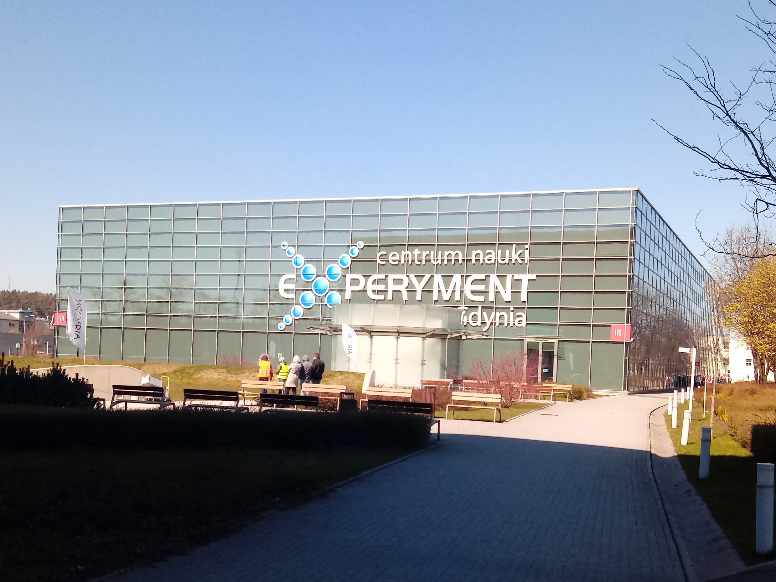 science center and science museum in Gdynia, Poland